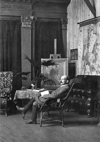 Bosch Reitz, Sigisbert Chrétien ('Gijs') (1860-1938) (1894) in zijn atelier